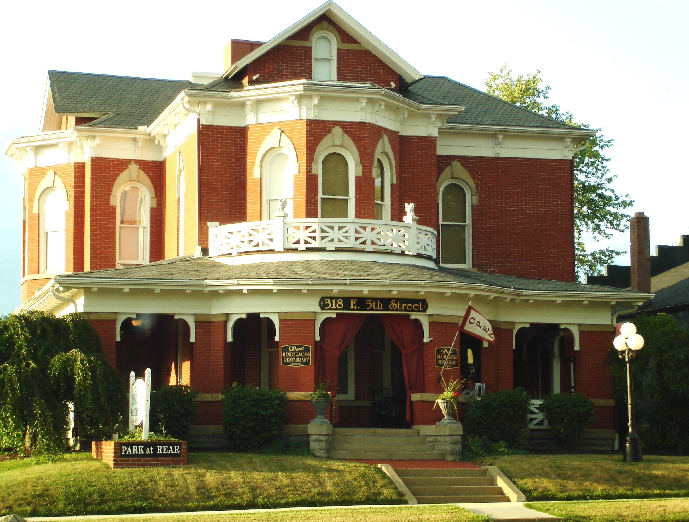 Front of the Dr. David W. Henderson House, located at 318 E. Fifth Street in Marysville, Ohio, United States. Built in 1884 and since converted to a restaurant, it is listed on the National Register of Historic Places.